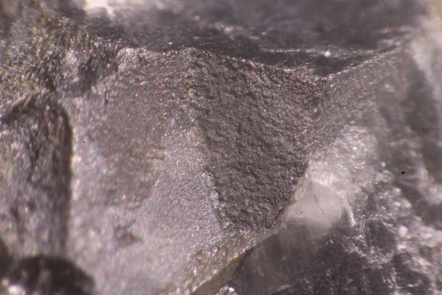 Metallic crystal aggregates and crusts of the extremely rare crookesite, a copper-thallium-silver selenide, a mineral full of rare elements; in fact it's the only mineral of almost 5000 that contains Ag, Tl and Se at the same time. Type locality mineral. From: Skrikerum Mine, Valdemarsvik, Östergötland, Sweden.